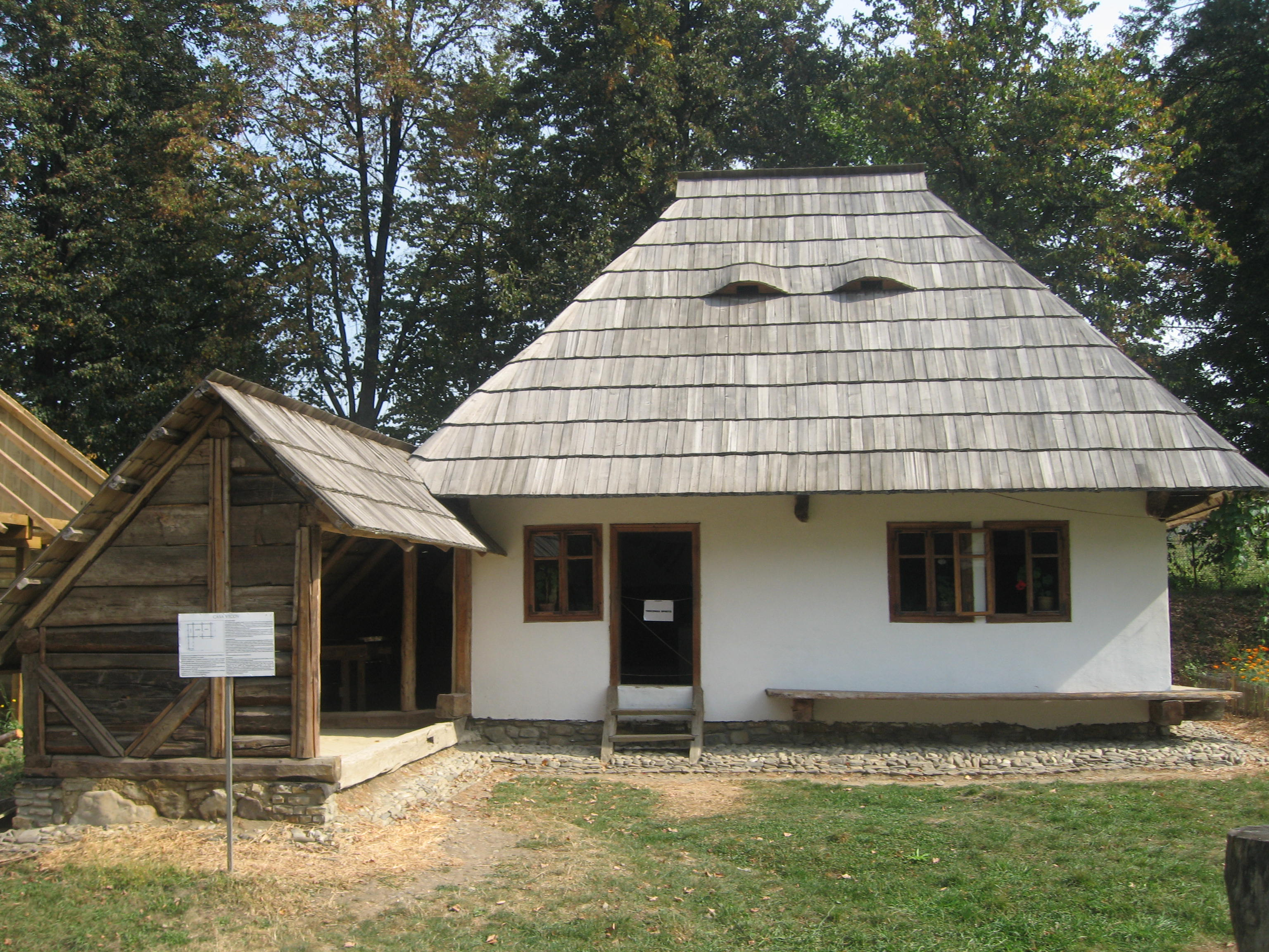 Bukovina Village Museum - The Vicovu de Jos House, Rădăuţi ethnographic area.